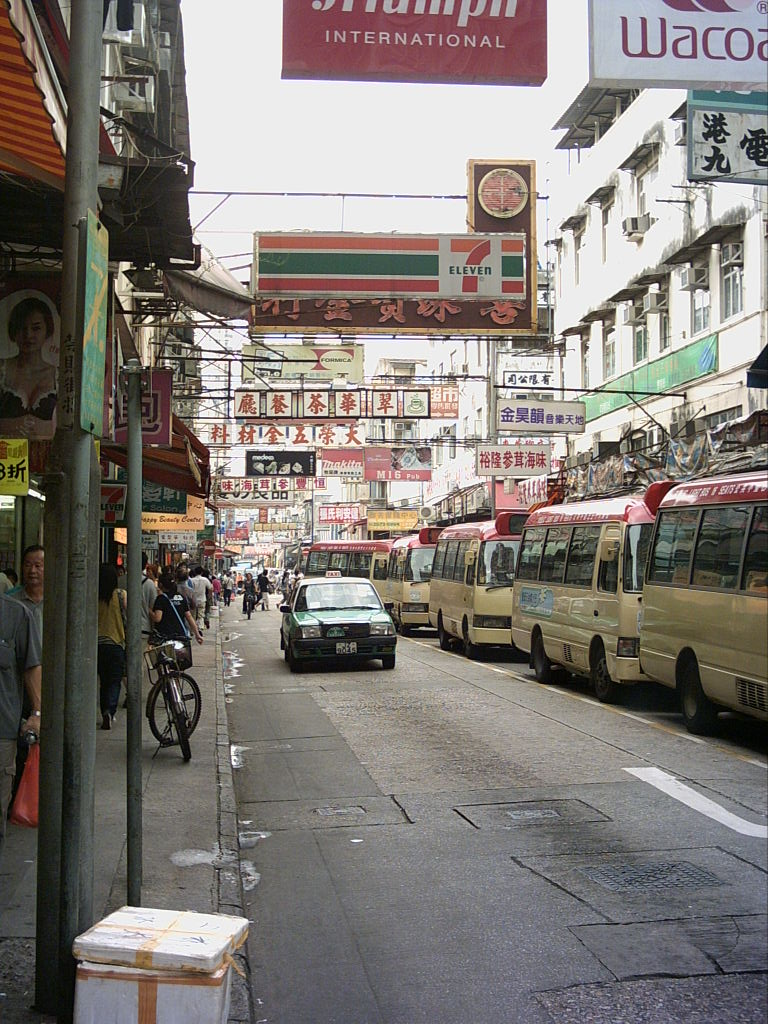 Guess where we are. Mong Kok? Causeway Bay? No. We're in Sheung Shui's busy San Hong Street. Taken by myself in August, 2006.